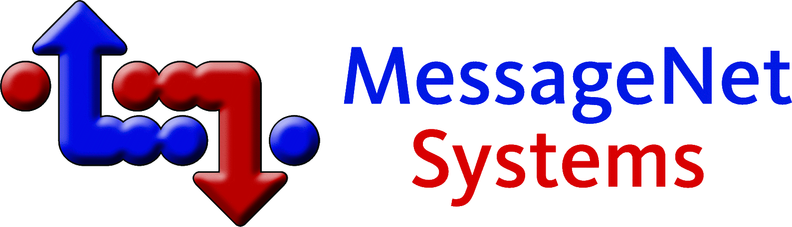 Older, pre-2012, logo for MessageNet systems. Logo donated to Wikimedia by the company.